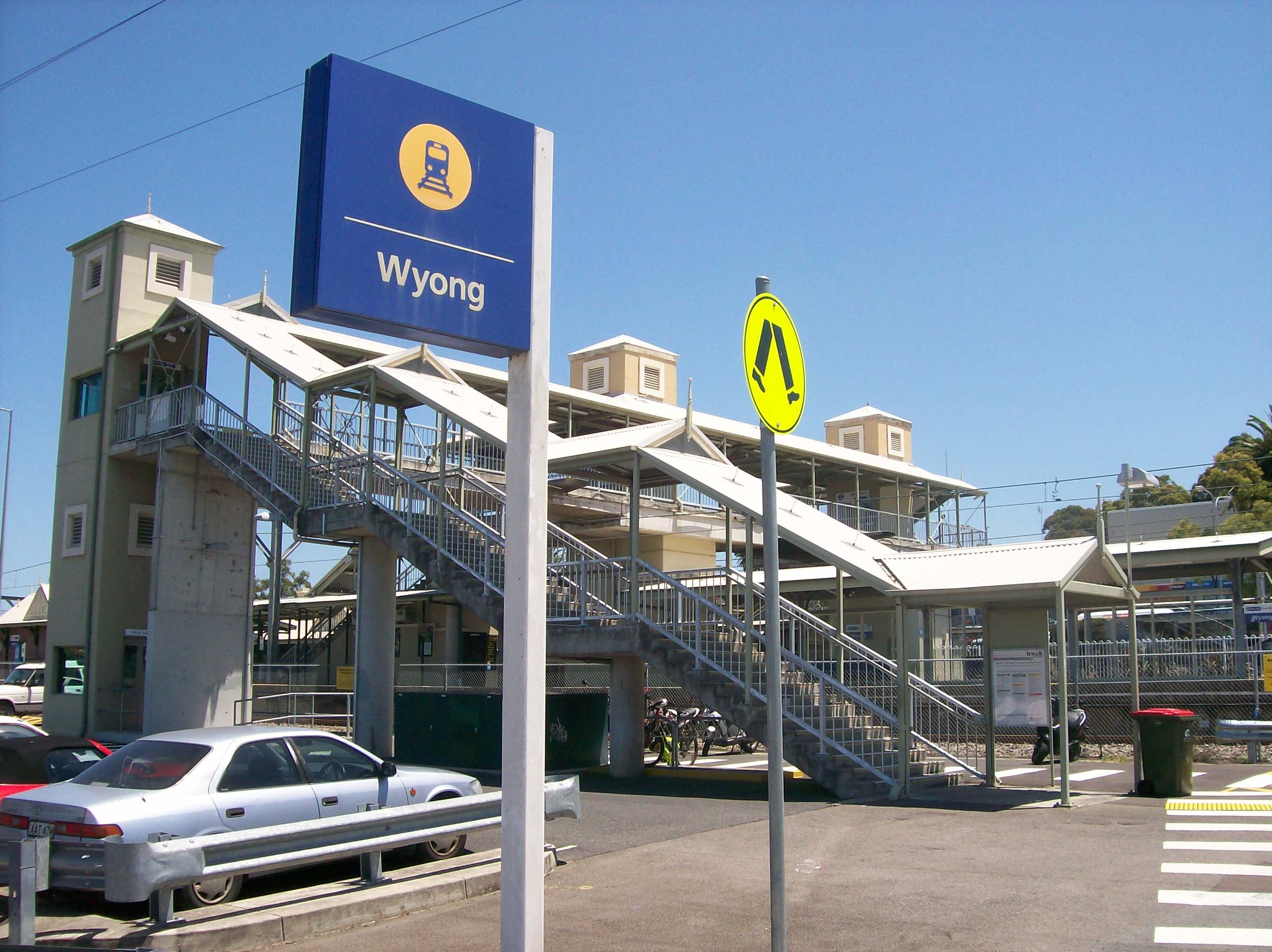 Wyong railway station entrance from east side